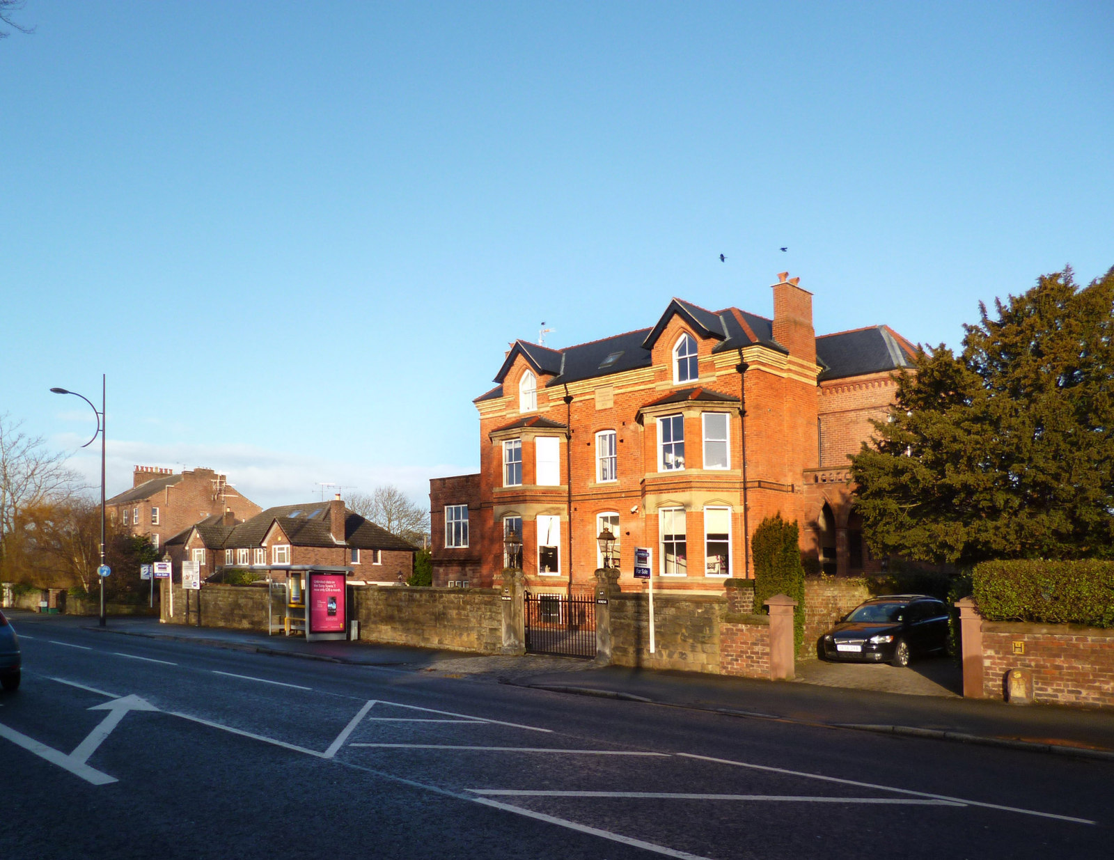 Redlands House, Hough Green